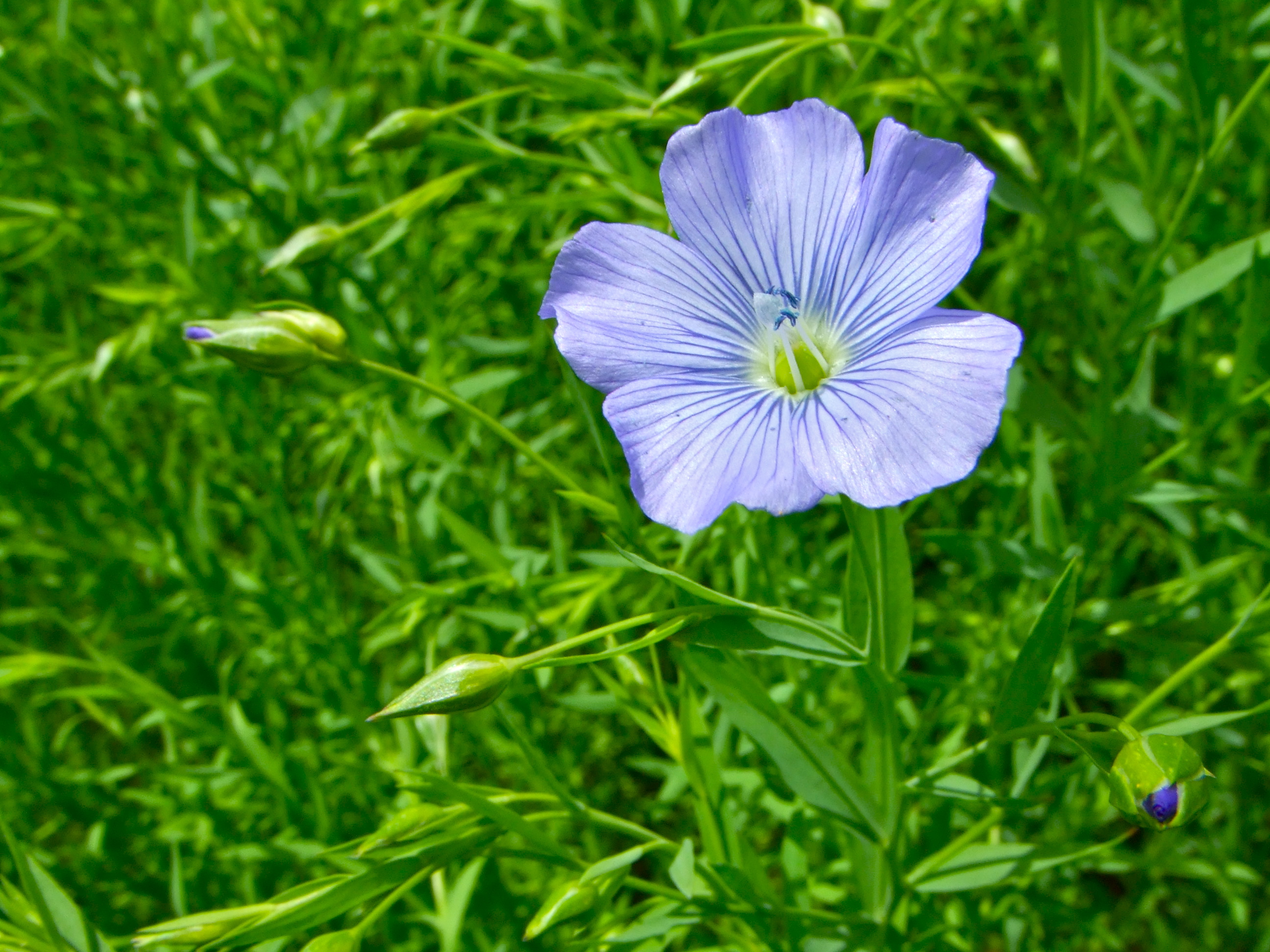 Flax blossom in June.